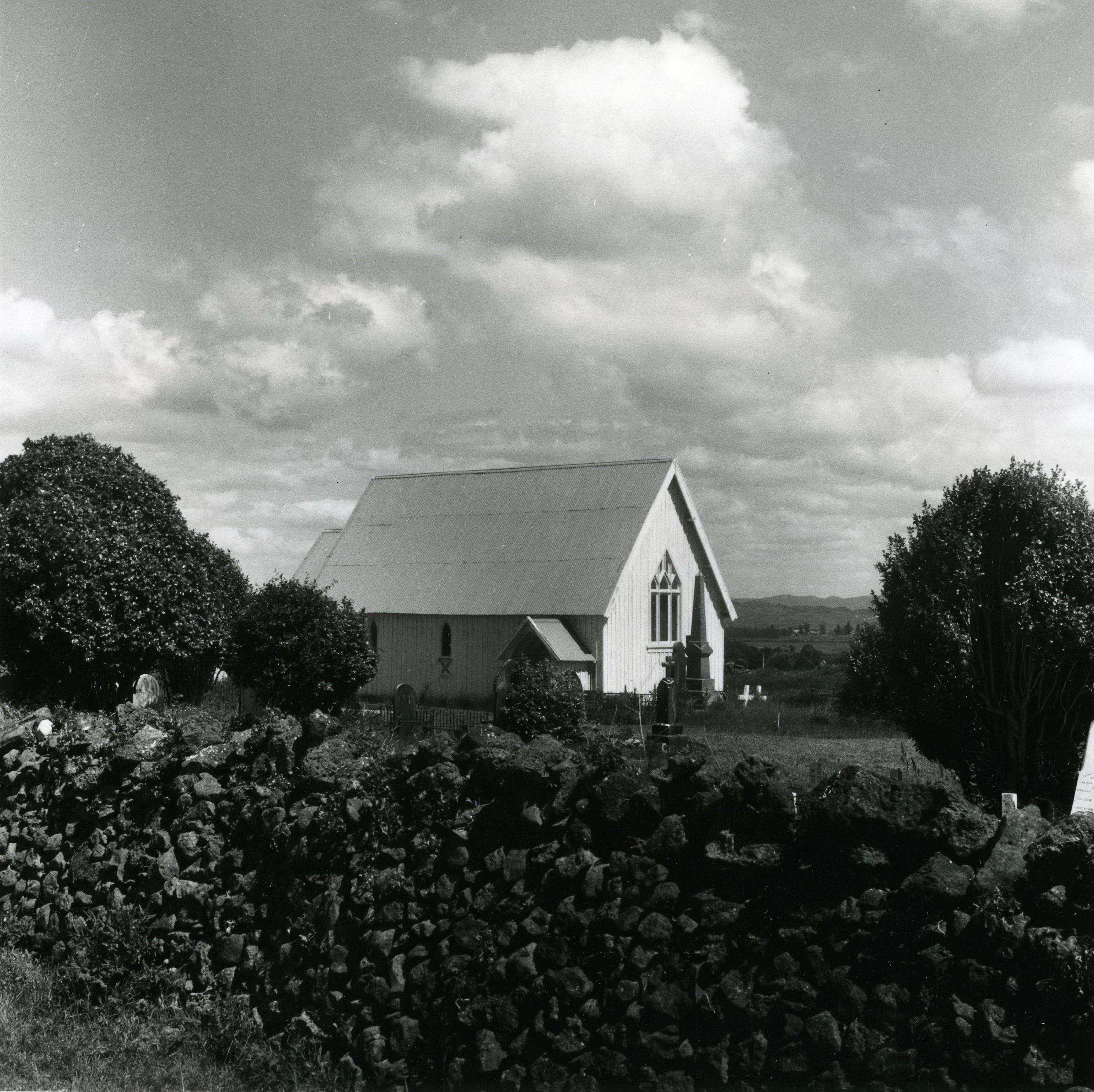 St Michael’s Anglican Church near Ōhaeawai occupies part of the site of the pā aorund which the battle of Ōhaeawai was fought in the winter of 1845. Kawiti’s garrison of approximately 100 warriors withstood a week-long bombardment from the British before inflicting heavy casualties on their attackers on 1 July 1845. Ōhaeawai, the prototype of the ‘modern pā’, was a major advance in the Māori response to new weaponry. The use of firing and communication trenches gave the occupants maximum protection while allowing rapid movement within the pā. Anti-artillery bunkers (rua) were set into the ground and covered with logs, stones and matted flax. Each could house 15–20 warriors in relative safety. The church was built by local Māori as a symbol of peace and a tribute to Pākehā who had died in battle on the site in 1845. It was dedicated by Bishop Cowie on 21 April 1871. Heta Te Haara ( subsequently obtained permission to re-inter the British soldiers killed at Ōhaewai in the churchyard. A burial service was accordingly conducted on 1 July 1872 and a memorial cross erected. The cross bears a dedicatory inscription in Māori, but no names (the names of the 47 dead interred at the site are listed inside the church). A framed account of the battle and a plan of the pā presented by the New Zealand Army on the church’s centenary in 1971 are also on display in the church. A brass plaque set into a boulder inside the churchyard gate commemorates the battle, the making of peace, the laying out of the cemetery and the construction of the church. This was unveiled on 1 July 1995. This image was taken by T.Hann in 1978, and comes from a collection of National Publicity Studios prints. Archives Reference: AAQT 6539 W3537 Box 6/ R9947 For updates on our On This Day series and news from Archives New Zealand, follow us on Twitter: Material from Archives New Zealand Caption information from